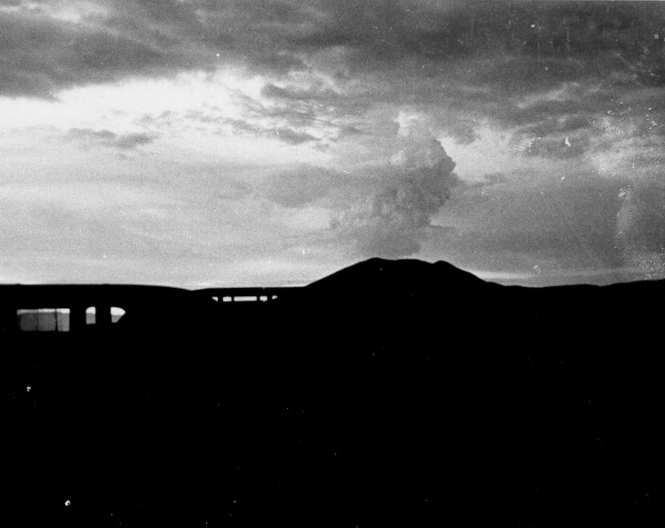 TRINITY PHOTOGRAPH - Miscellaneous snapshot taken following Trinity Event.